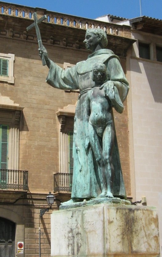 Mallorca (Spain), Palma, Place San Francisco, statue of Junípero Serra in front of monastery-church.